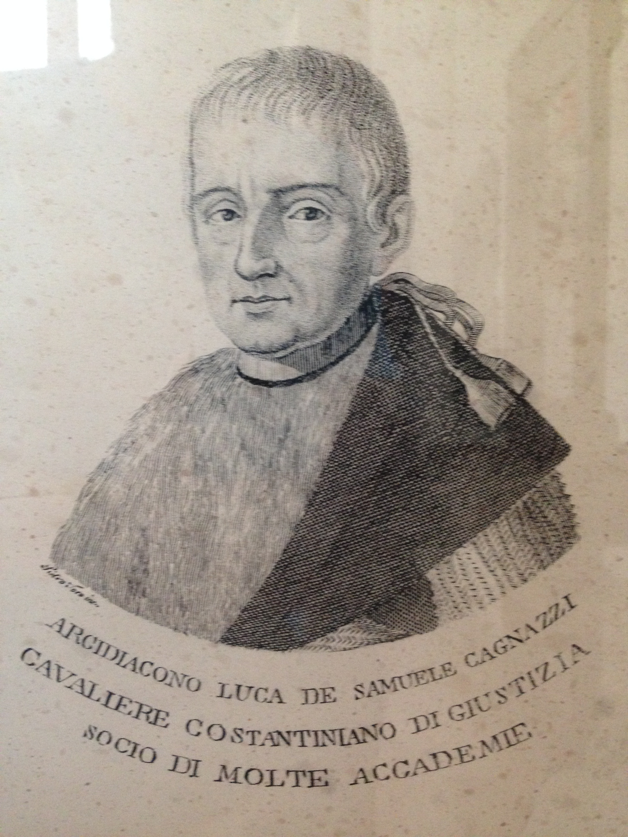 Luca de Samuele Cagnazzi - Drawing exhibited inside A.B.M.C. Museum (Altamura)